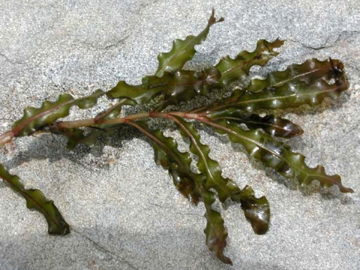 Potamogeton crispus L. - curly-leaved pondweed